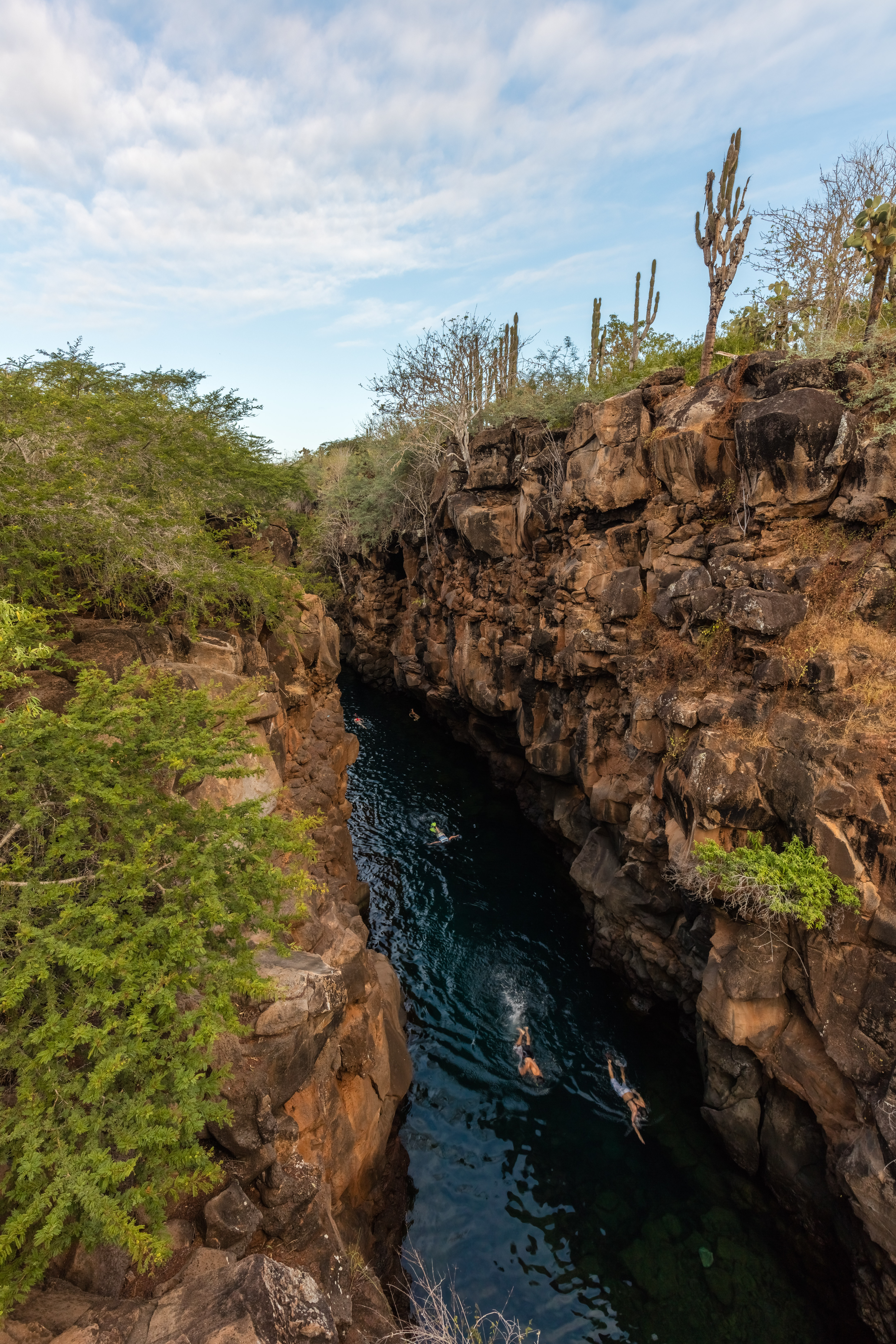 Las Grietas, Santa Cruz island, Galapagos islands, Ecuador